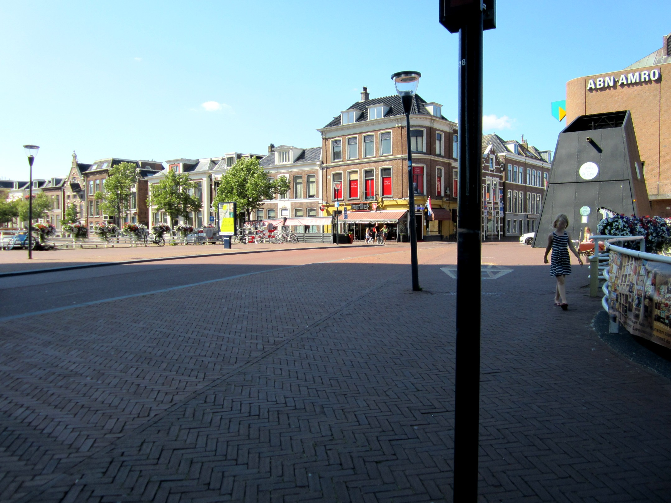 Prins Hendrikbrug (Frisian: Prins Hindrikbrêge) in Leeuwarden/Ljouwert, Friesland, the Netherlands. Seen from Willemskade street, south side (meaning south of the canal).